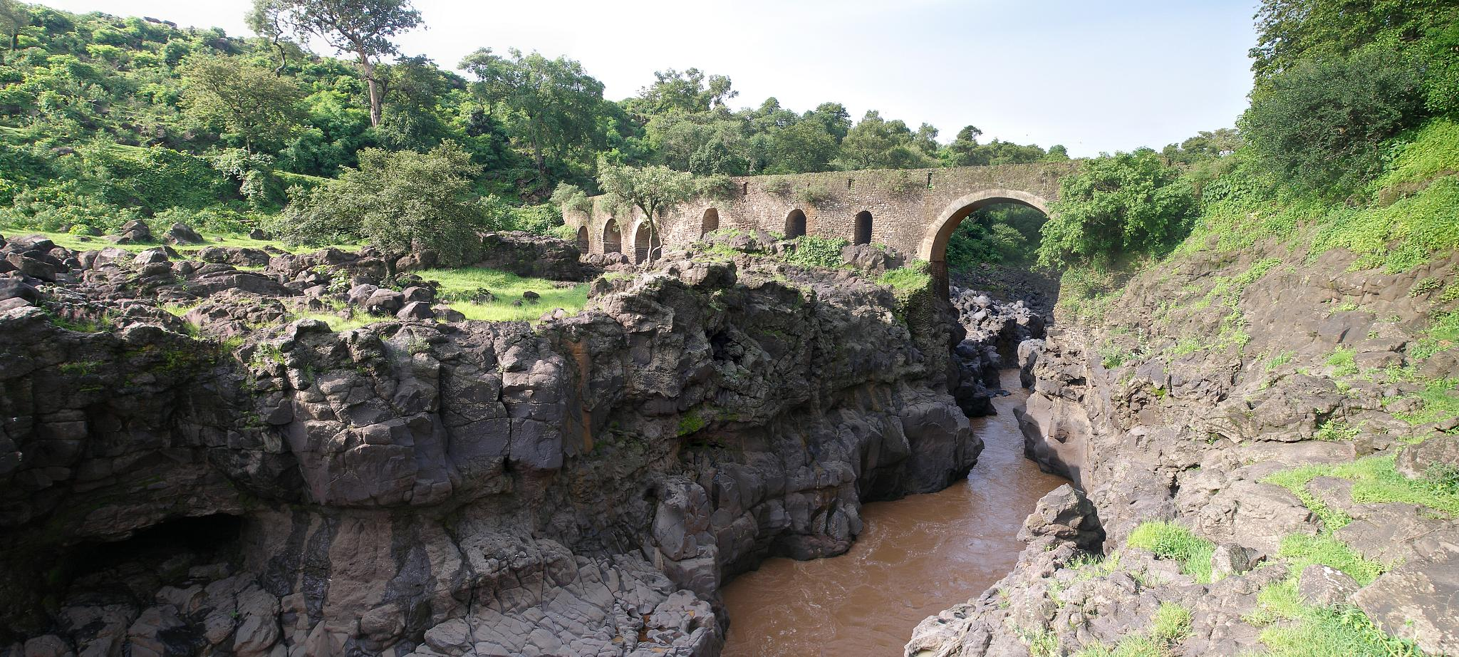 The archs of the portuguese bridge of Tis Issat, Ethiopia